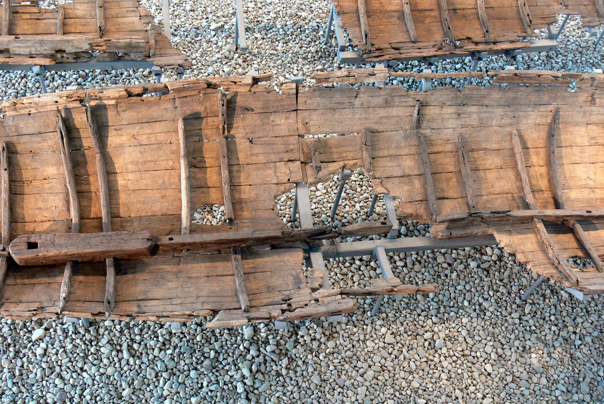 Celtic Museum Manching ( Bavaria ). Remnants of ancient Roman military boats ( 100s AD ) from Oberstimm.